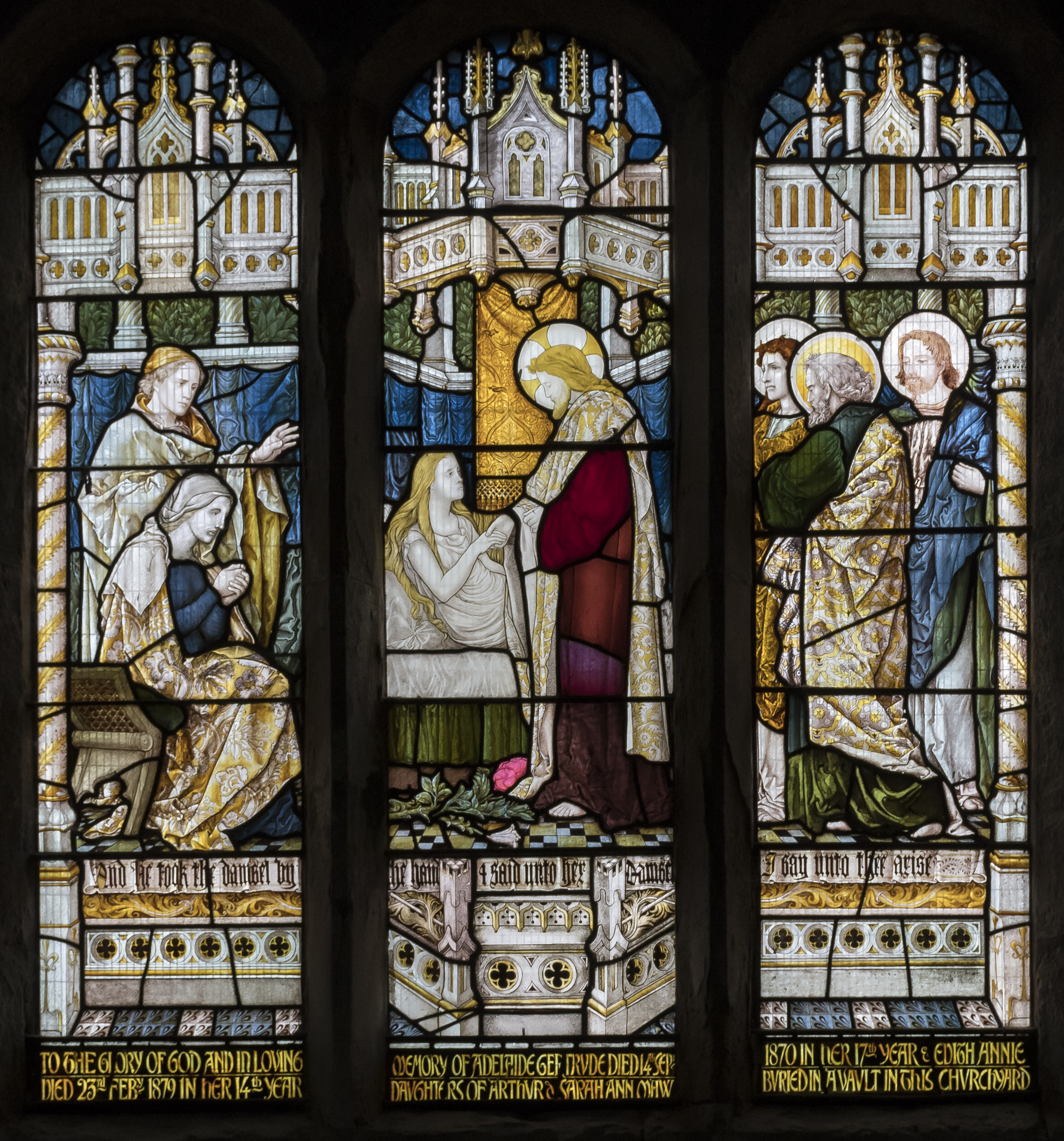 Depicting The Raising of Jairus' daughter. Adelaide Gertrude Maw d.1870 aged 17, and Edith Annie Maw d.1879 aged 14, daughters of Arthur and Sarah Maw.